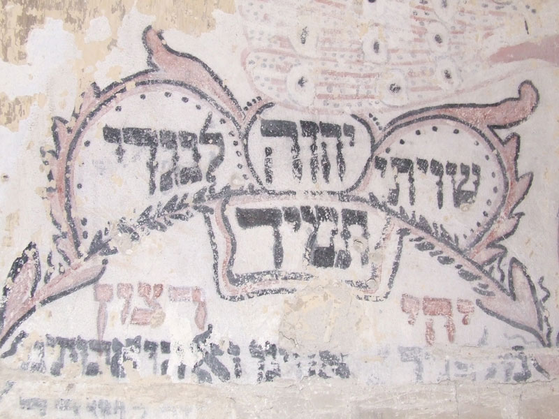 Synagogue in Bychawa